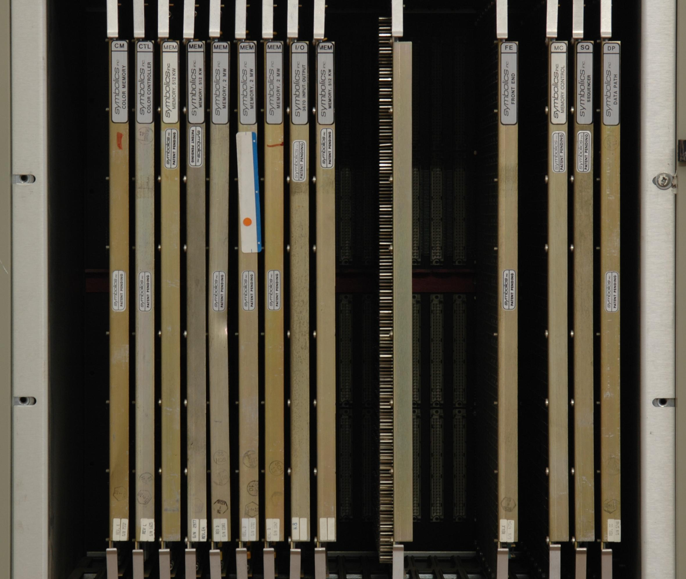 Boards from a Symbolics 3670 lisp machine. From the collection of the RCS/RI.